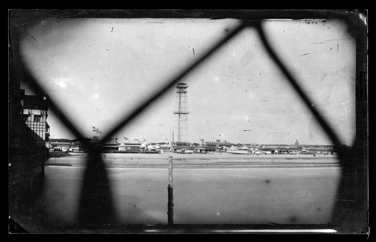 George Bradford Brainerd (American, 1845-1887). West Brighton, Brooklyn, ca. 1872-1887. Wet-collodion negative. Prints, Drawings and Photographs. Brooklyn Museum/Brooklyn Public Library, Brooklyn Collection, 1996.164.2-276. (1996.164.2-276_glass_IMLS_SL2.jpg) Help us geotag this photograph so we can represent Brooklyn on Historypin. If you can figure out where this image should be placed: Use Suggestify to suggest a location for it. [or] Leave a comment on Flickr and link to the location on Google Maps. [or] Tweet @brooklynmuseum with the Flickr image URL, the location link to Google Maps and use the #mapBK hashtag. More about #mapBK